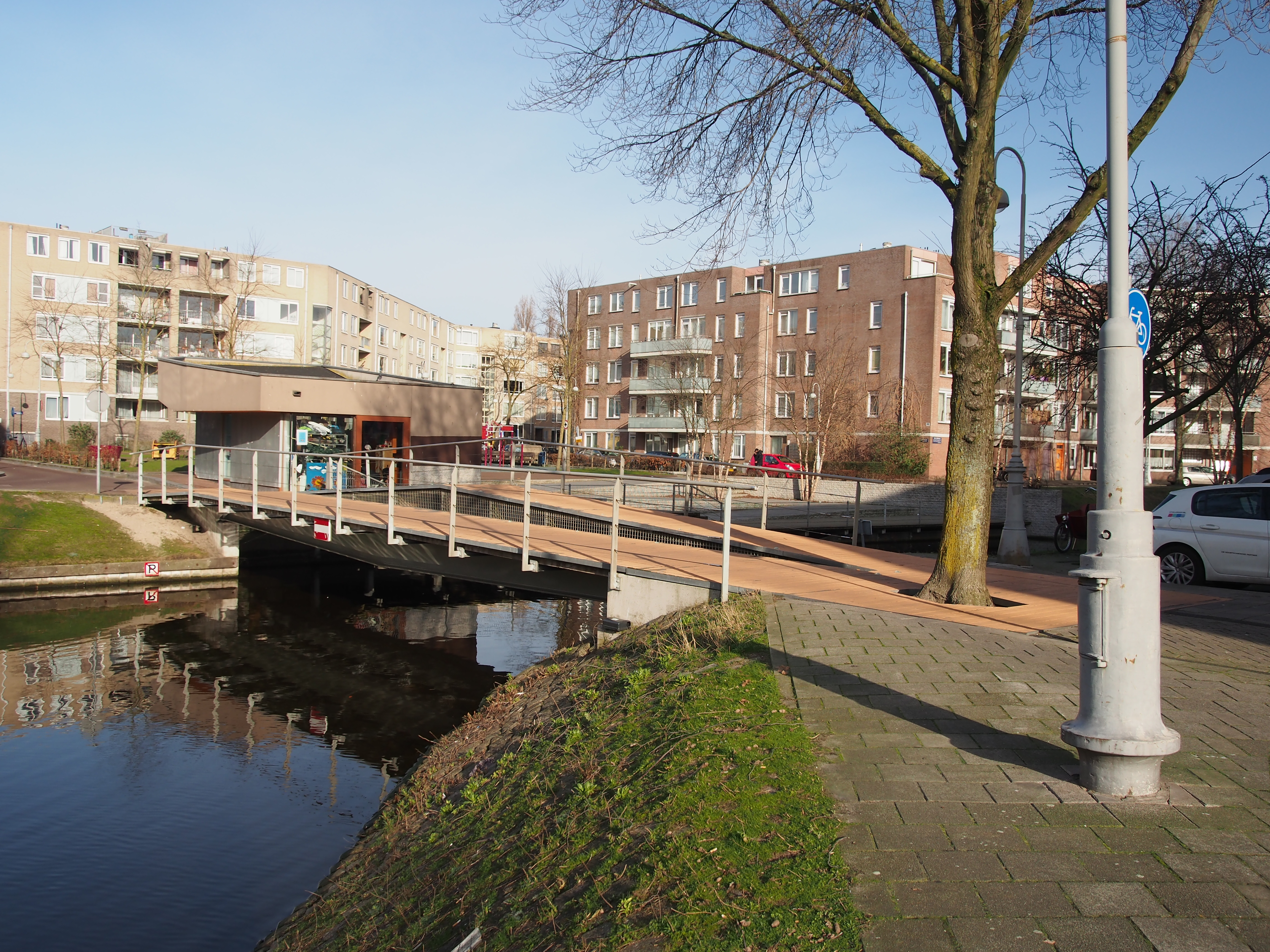 Photo taken in Amsterdam, The Netherlands.